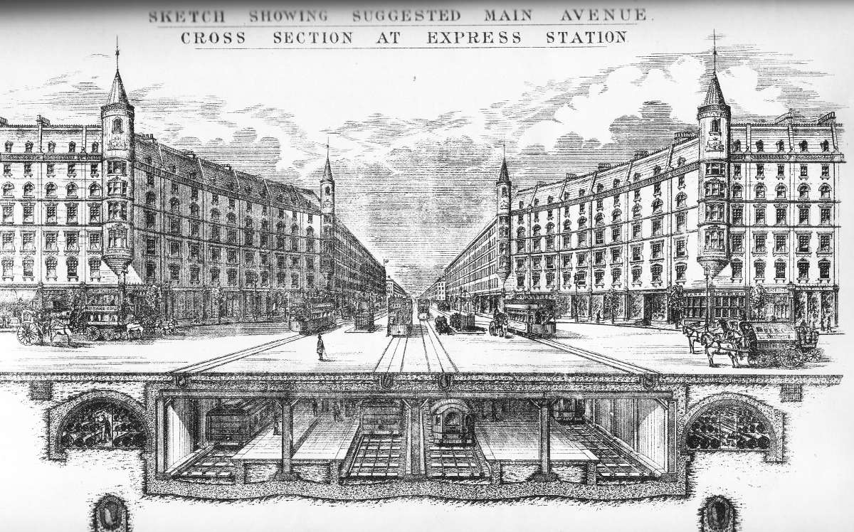 Sketch Showing Suggested Main Avenue Cross Section at Express Station from Report of the Royal Commission on London Traffic. Four tram lines run on the street level with traffic between and four railway lines run beneath.